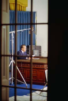 From the Nixon Library. Image ID WHPO E2679c-09A.